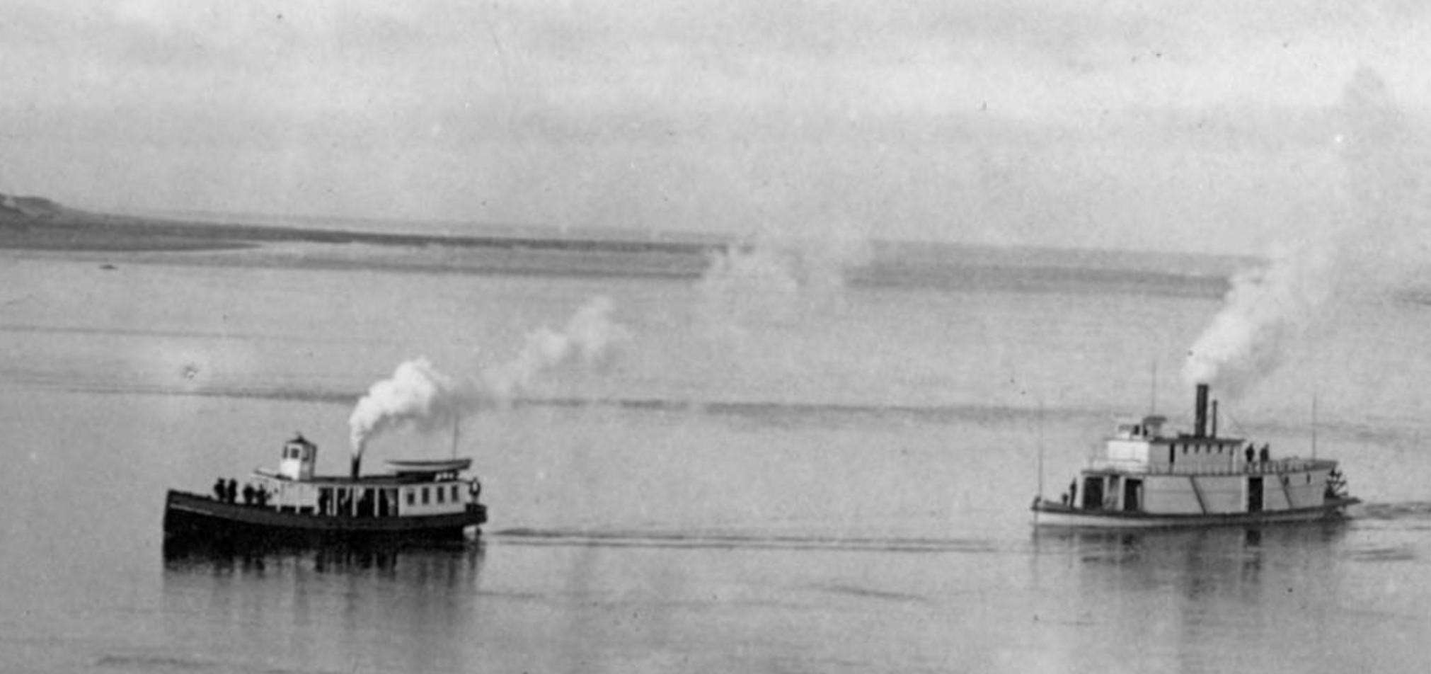 The steamers Tressa May (on left) and Montesano in Yaquina Bay, circa 1888. Date is derived from dates of Montesanos service in Yaquina Bay, which were from 1887 to 1889, approximately.